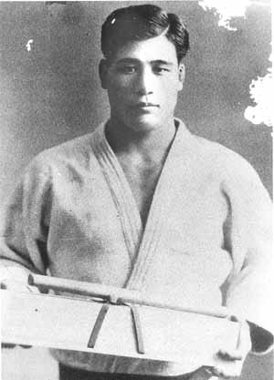 Japanese judoka Masahiko Kimura (木村政彦) in 1940 at age 24 with the Emperor's tanto (dagger) gift after winning the Ten-Ran Shiai, a tournament held in the presence of the emperor of Japan.